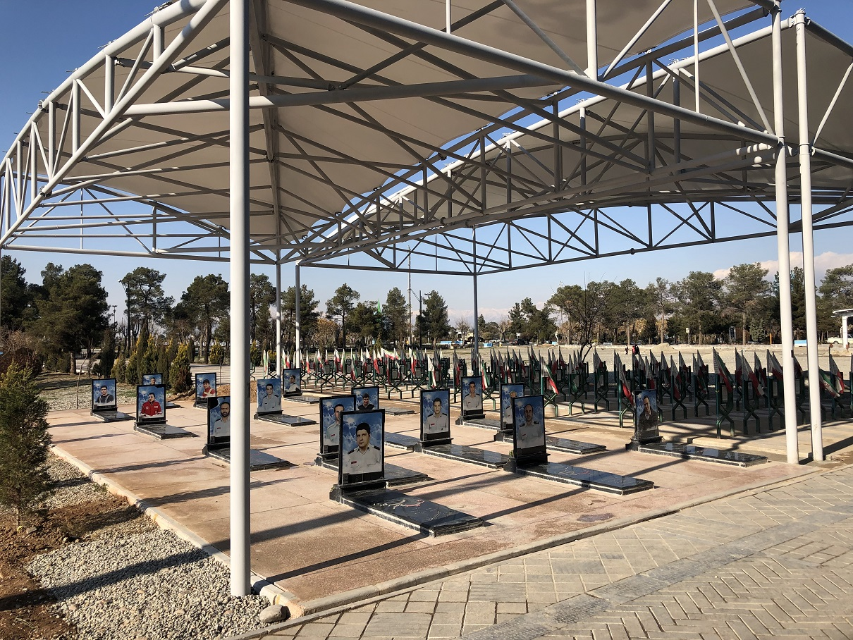 Tomb of Plasco fire victims at Behesht Zahra Cemetery